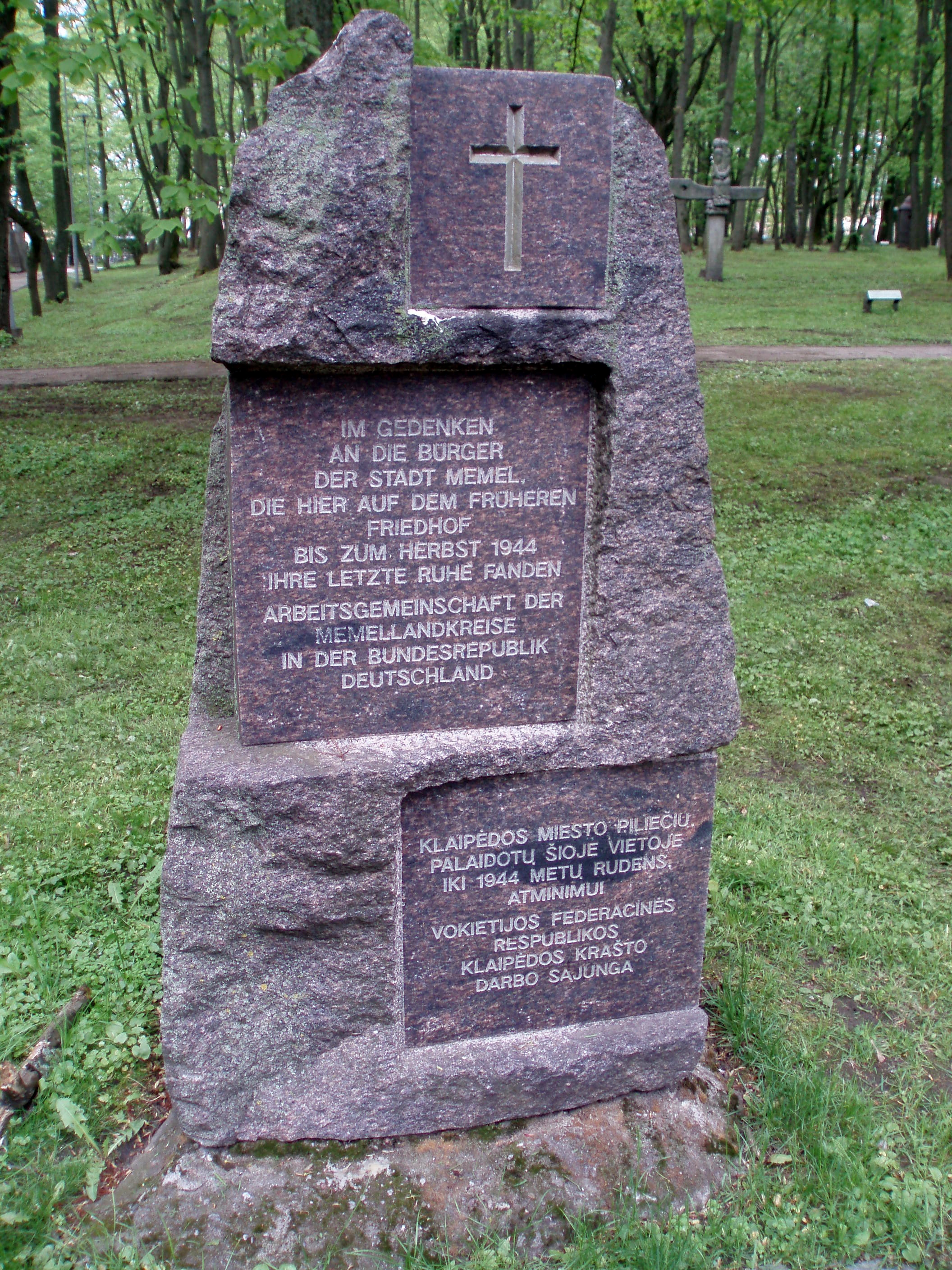 "Memellanders' Stone" to commemorate Klaipeda residents buried in the Klaipeda Sculpture Park before 1944 (by Klaipeda Region Work Group "Arbeitsgemeinschaft der Memellandkreise").